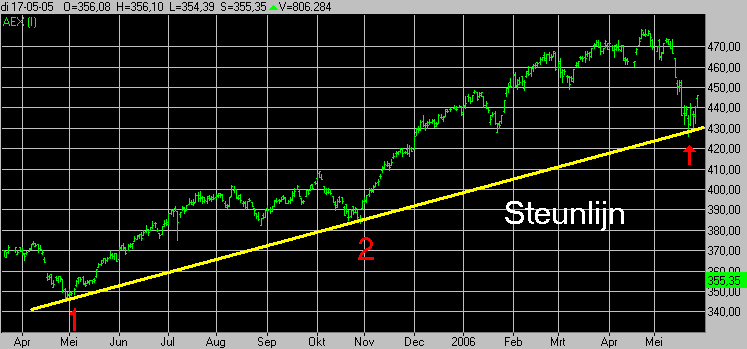 Support line on a chart of the AEX index.